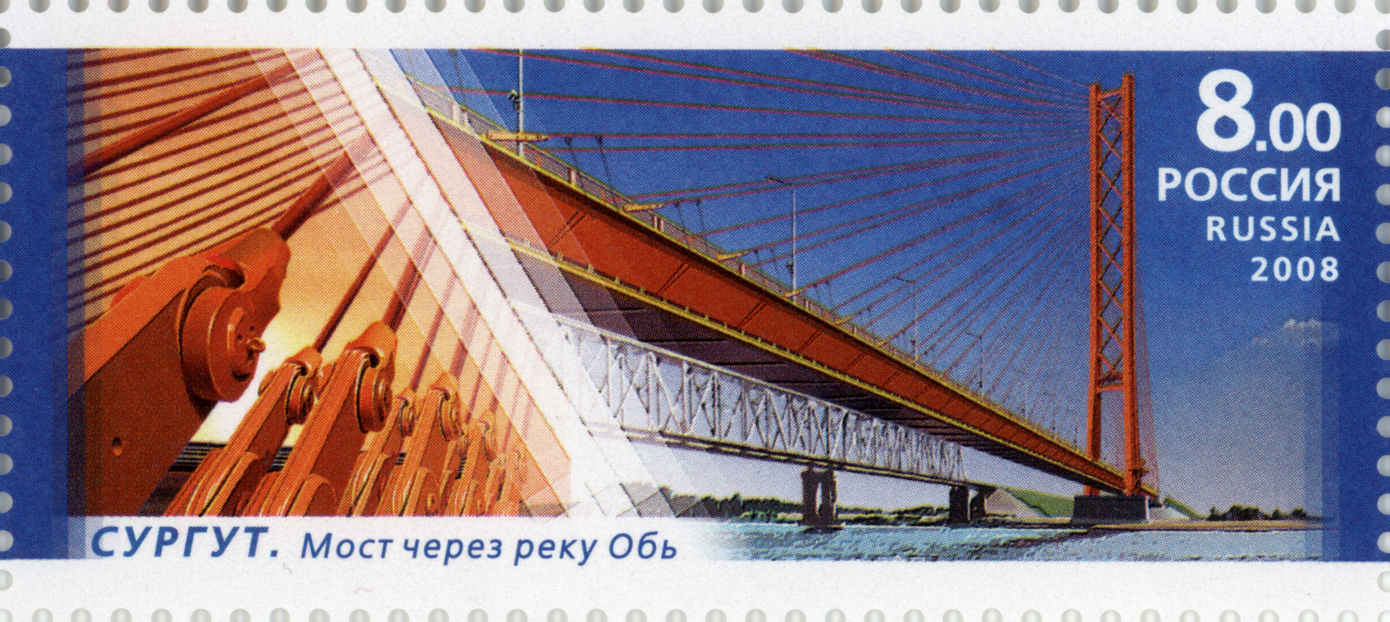 Postage stamp of Russia. 2008. Cable-braced bridges. Surgut. Bridge over Ob river.